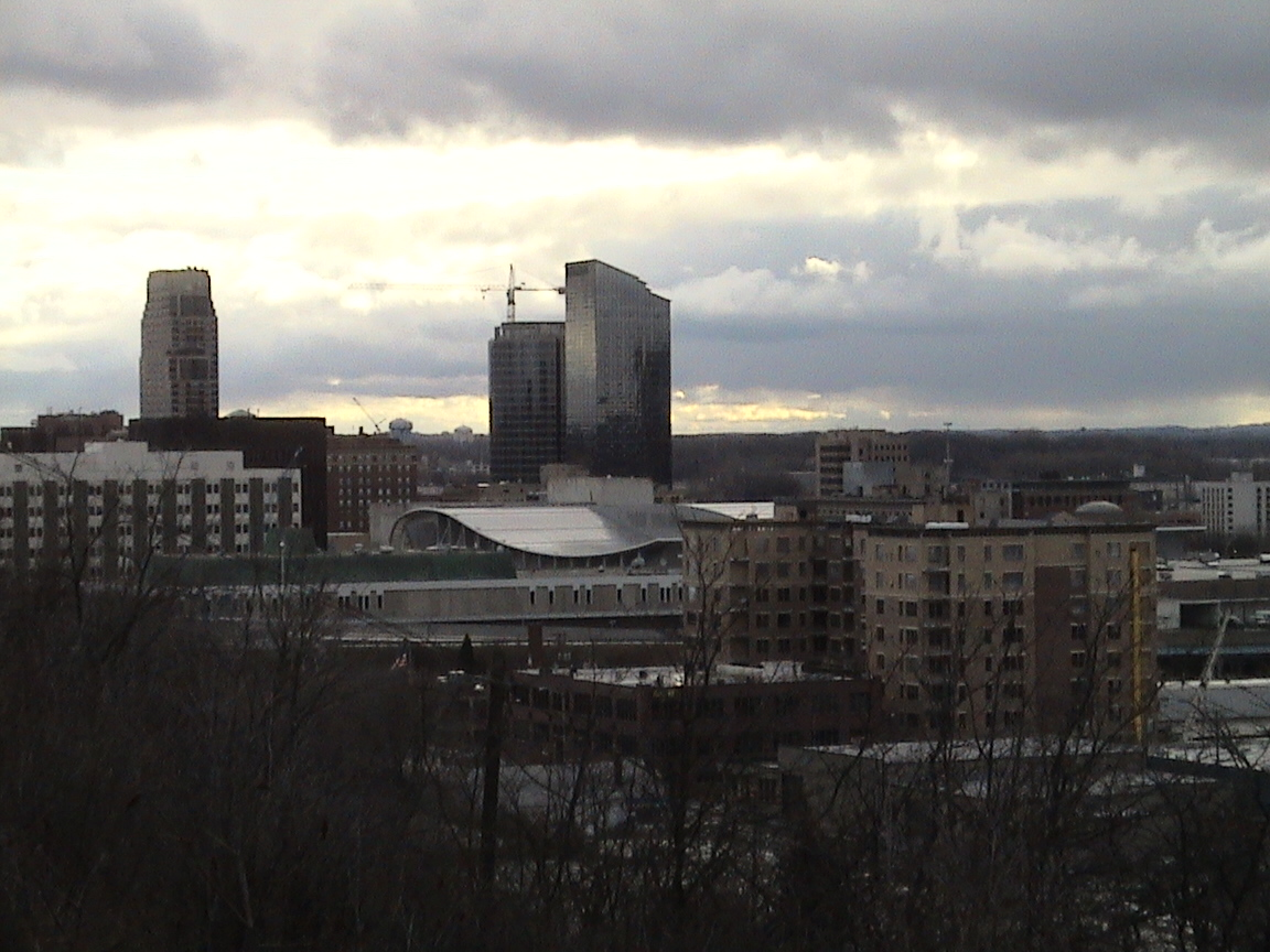 The skyline of Grand Rapids, Michigan